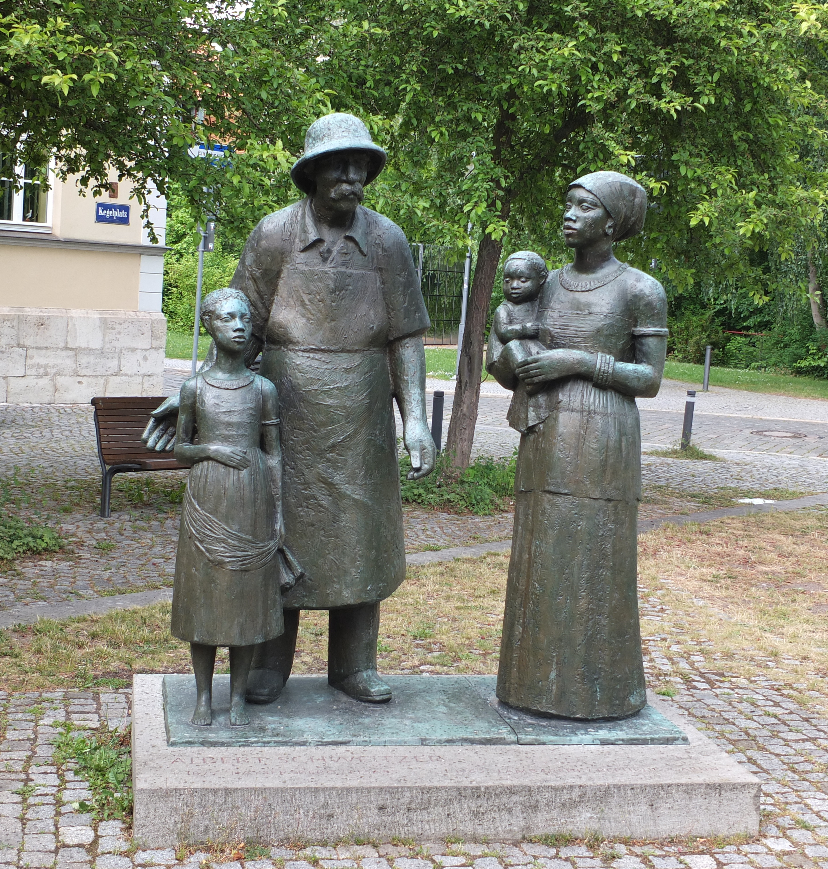 Statue by Gerhard Geyer (1968) in honour of Nobel Peace Prize winner Albert Schweitzer.